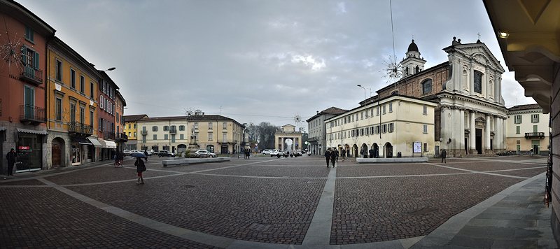 Piazza Garibaldi, square in Crema (Italy)